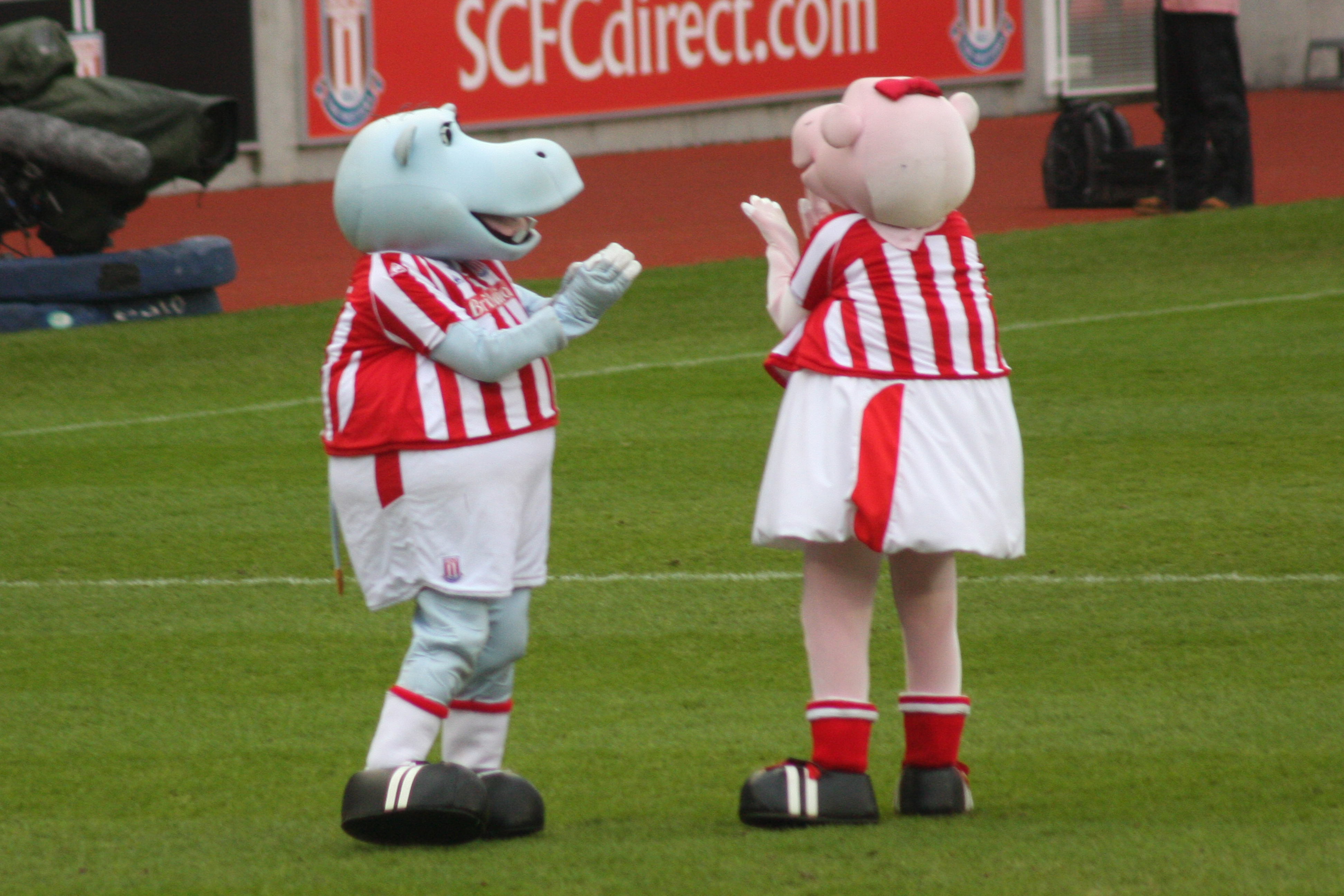 Mascots of association football club Stoke City F.C.